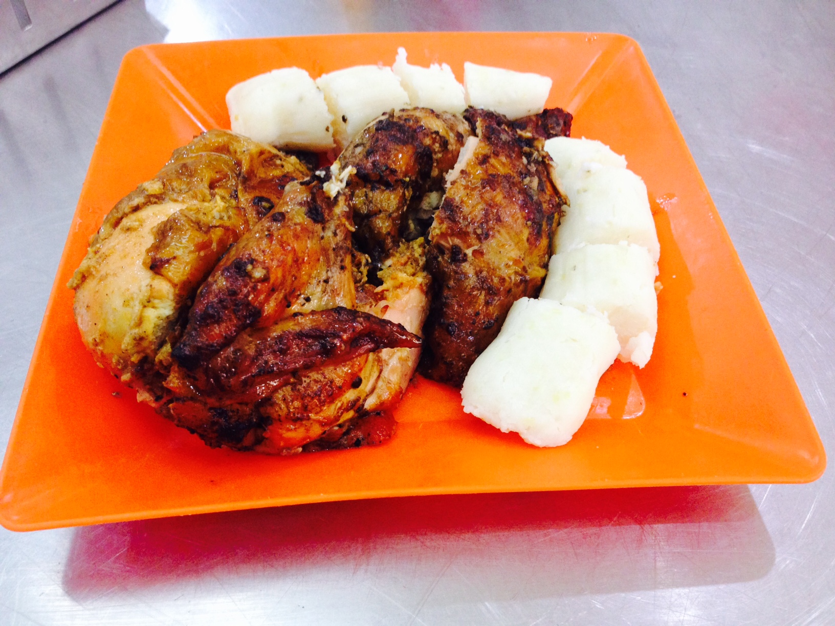 Pollo asado con bollo limpio, Barranquilla, Colombia